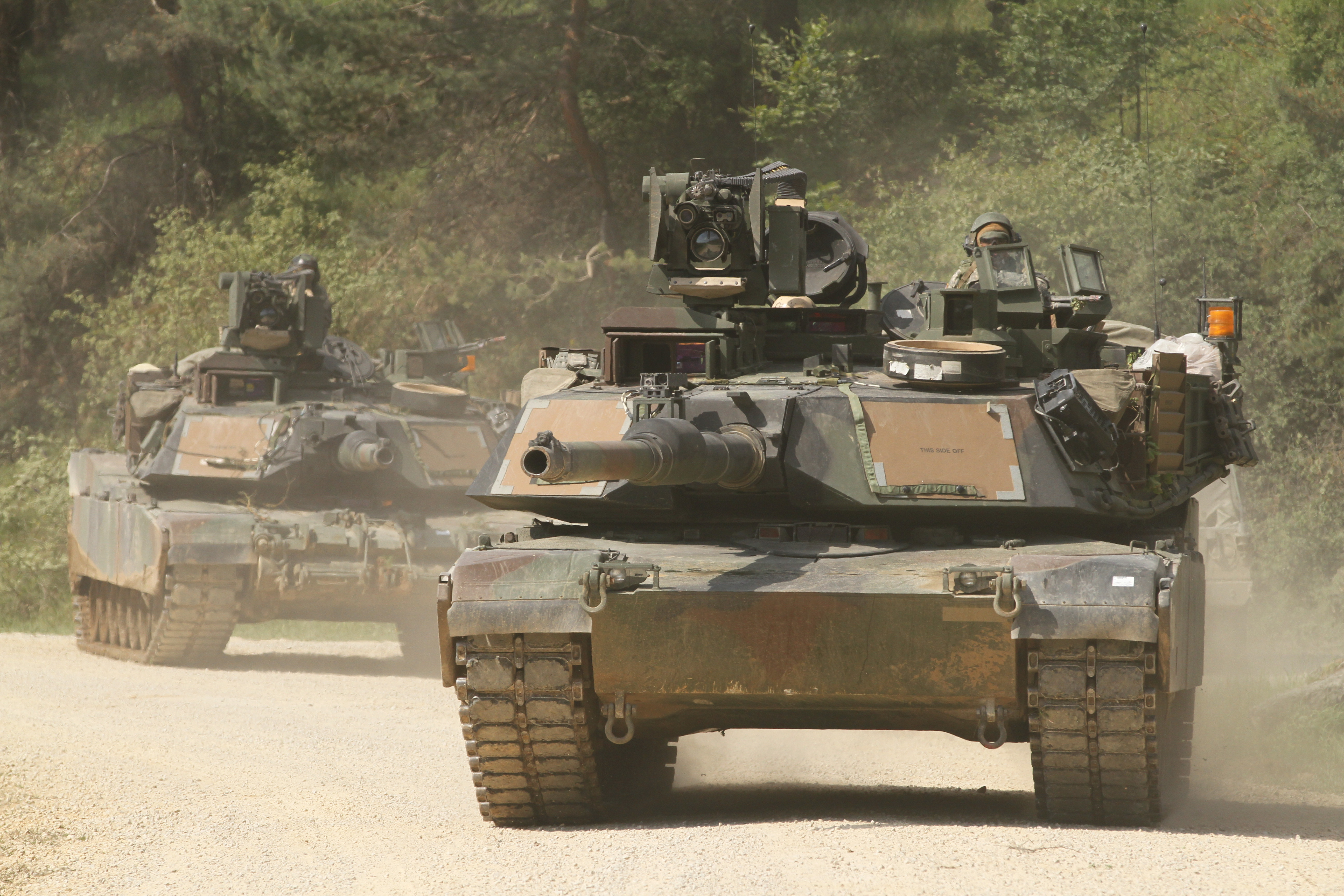 Abrams tanks with Company C, 2nd Battalion, 5th Cavalry Regiment, 1st Brigade Combat Team, 1st Cavalry Division, hunt for enemy in the Hohenfels Training Area during Combined Resolve II. The armored vehicles are part of the European Activity Set, a battalion-sized set of equipment pre-positioned on the Grafenwoehr Training Area to outfit and support U.S. Army forces rotating to Europe for training and contingency missions in support of the U.S. European Command. The EAS will be used for the first time by the 1st Brigade Combat Team, 1st Cavalry Division during exercise Combined Resolve II at the U.S. Army’s Grafenwoehr and Hohenfels Training Areas, May 15 – Jun. 30, 2014. For more photos, videos and stories from Combined Resolve II, check out (U.S. Army photo by Capt. John Farmer, 1st BCT, 1st CD Public Affairs).